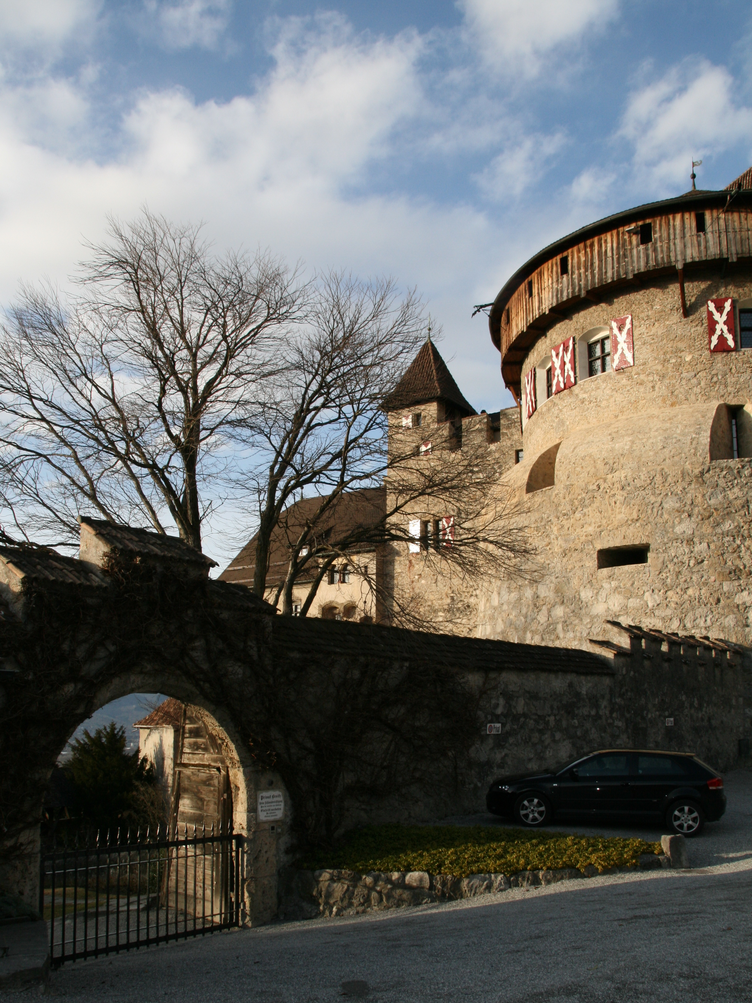 Vaduz Castle in Lichtenstein, residence of the Prince of Liechtenstein